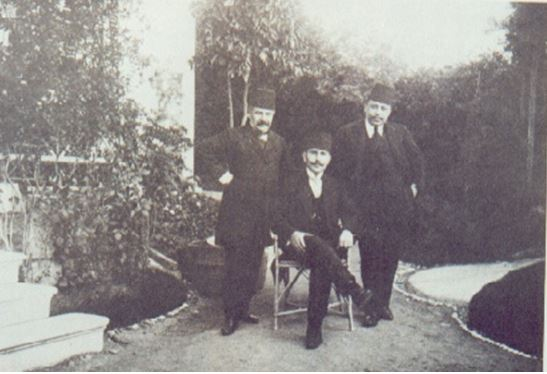 Vamvakas, Dinkas, Bousios